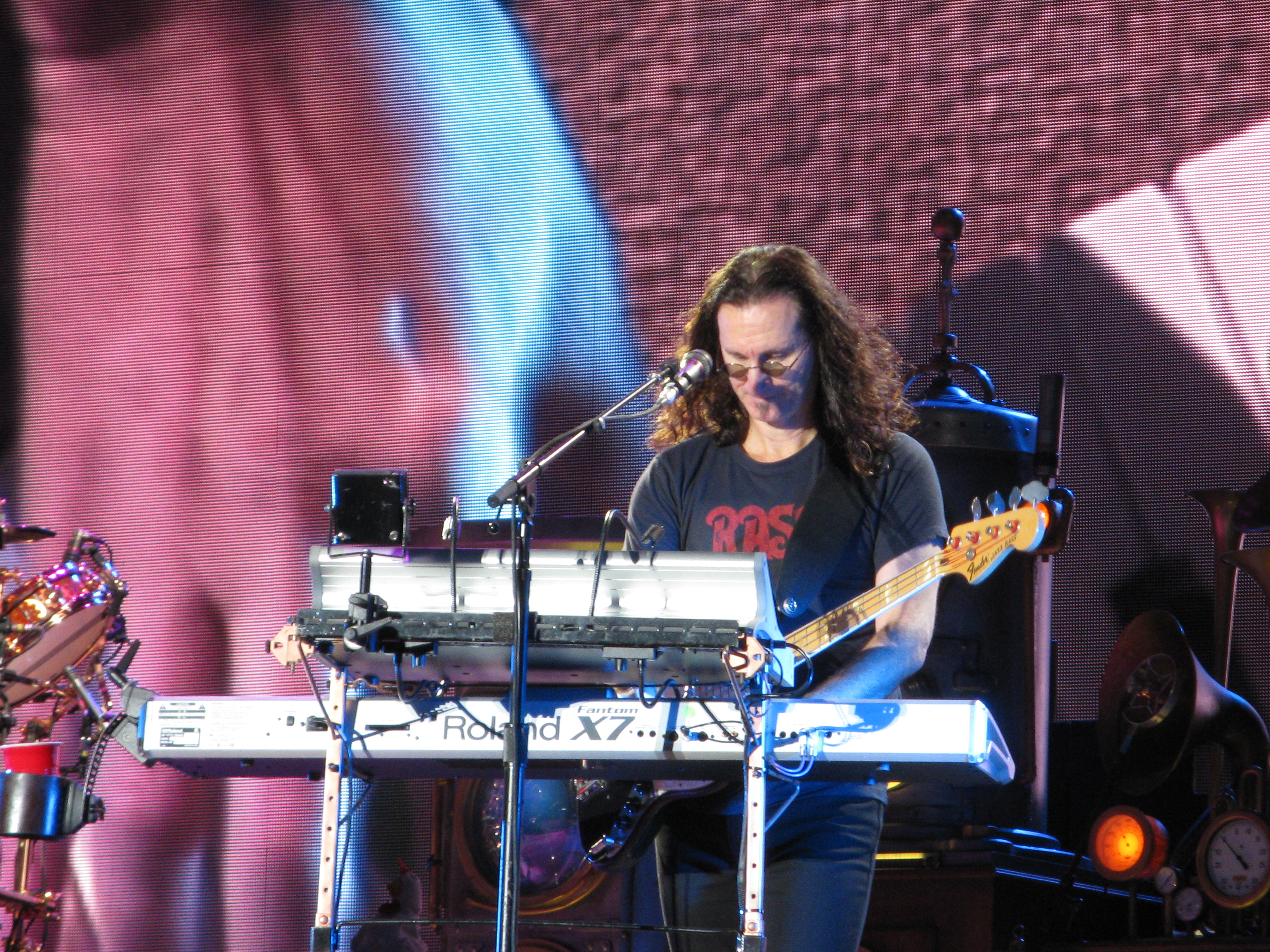 Geddy Lee of Rush, playing his Roland Fantom X7 during the 2010 Time Machine tour in Quebec City.